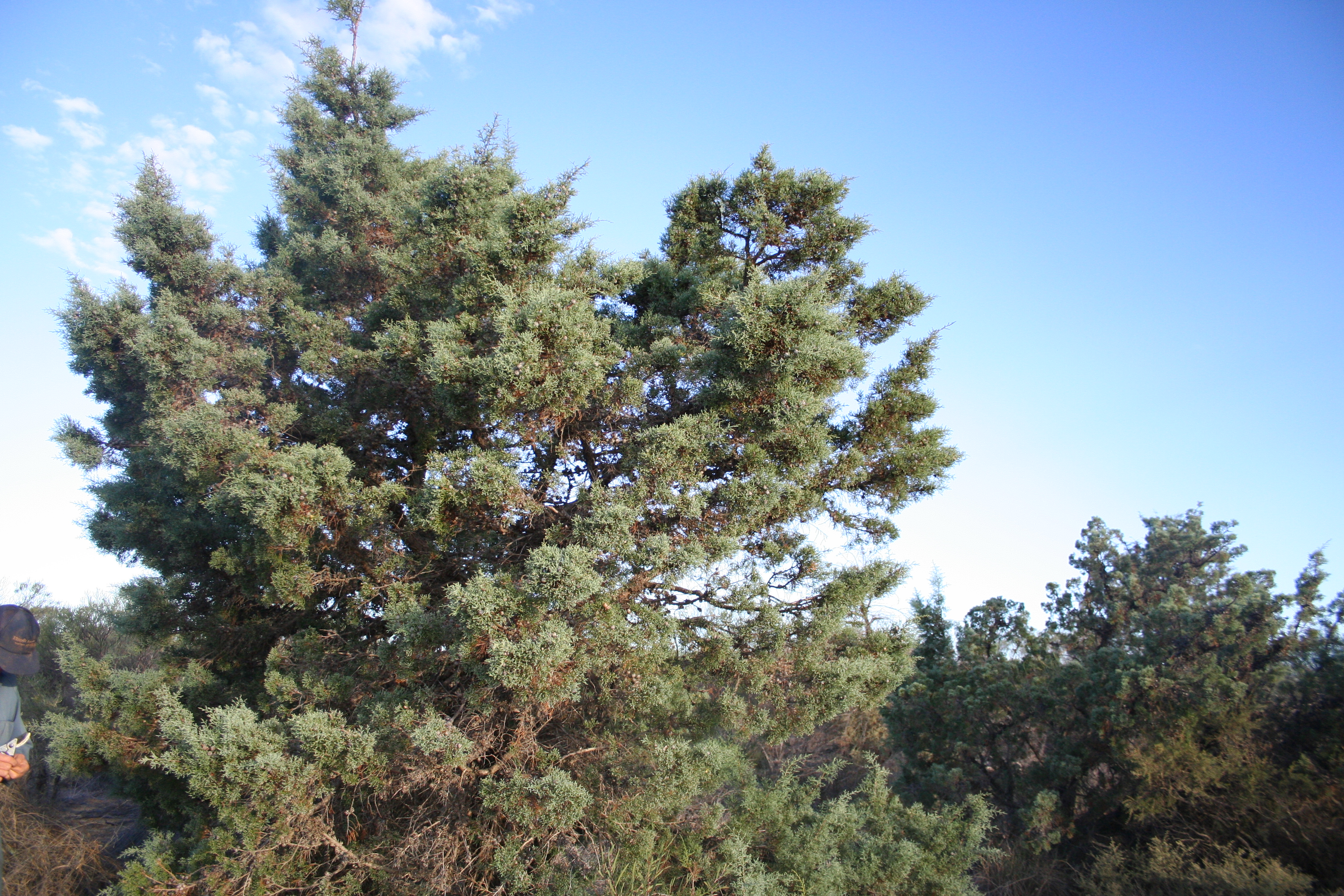 Actinostrobos arenarius habit, near Murchison River WA